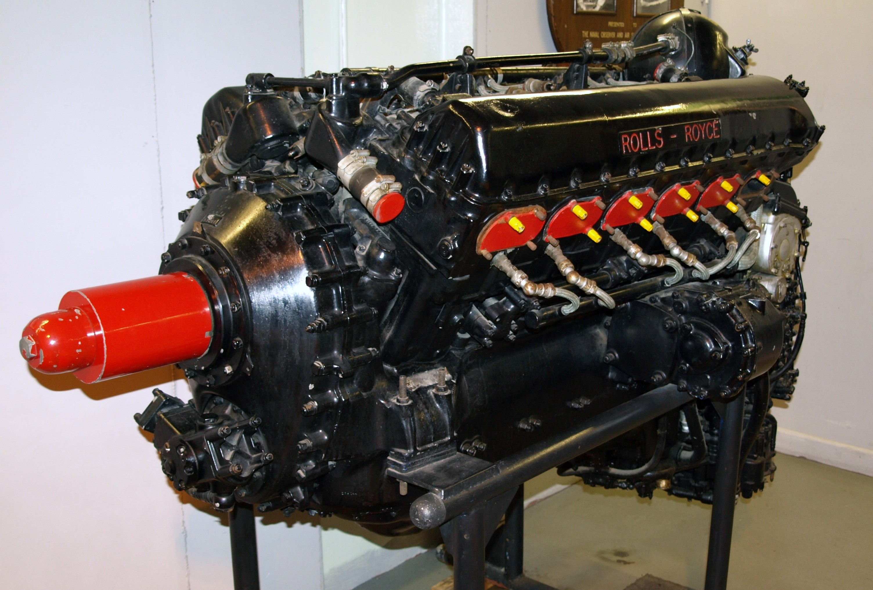 Rolls-Royce Merlin 35 aero engine on display at the Fleet Air Arm Museum.